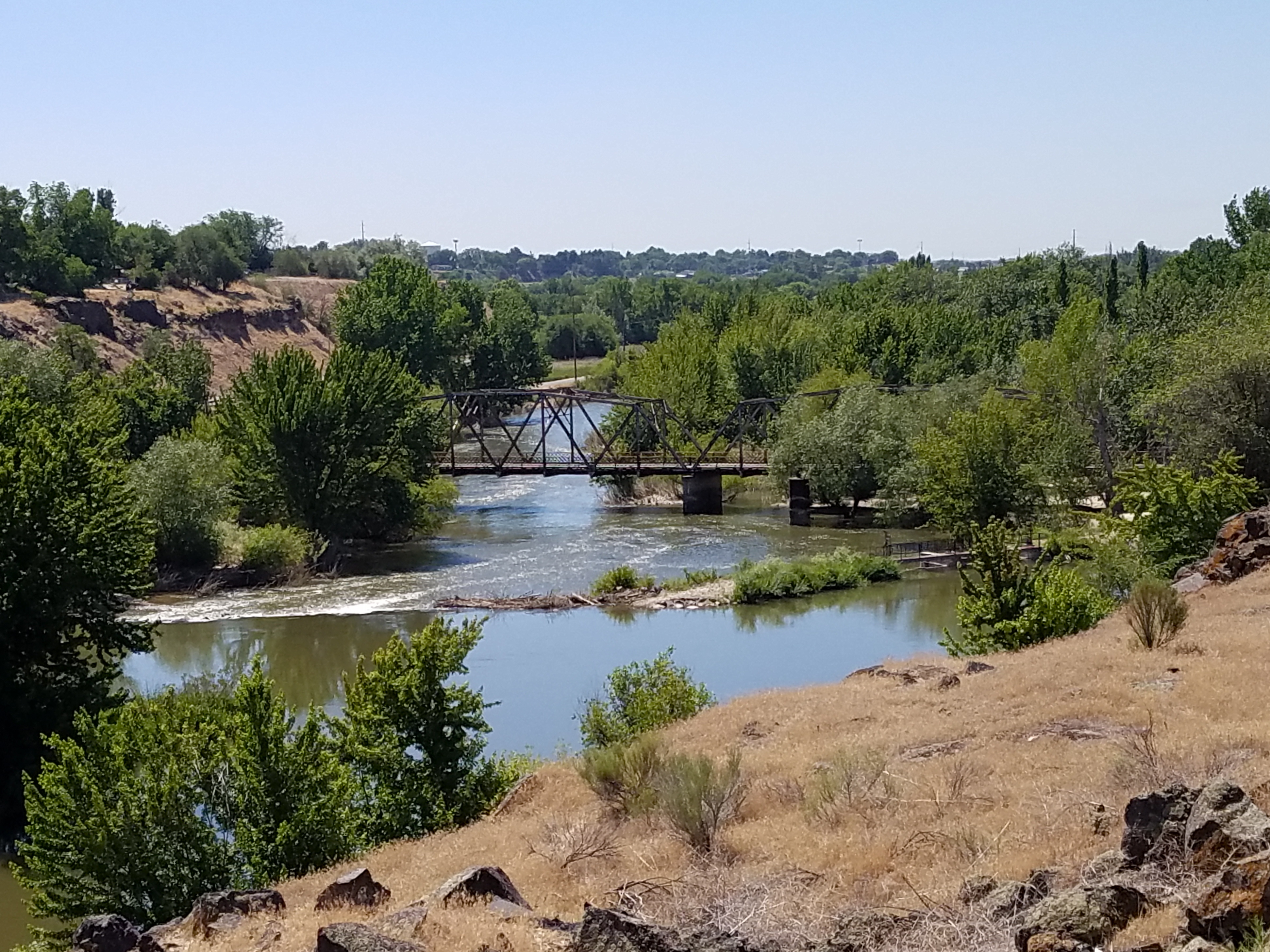 The Boise River and Canal Bridge, NRHP 07000003, was designed by Caldwell engineer Fred McConnel and built by the American Bridge Company in 1922. The bridge is a Warren camelback through truss, three-span design.